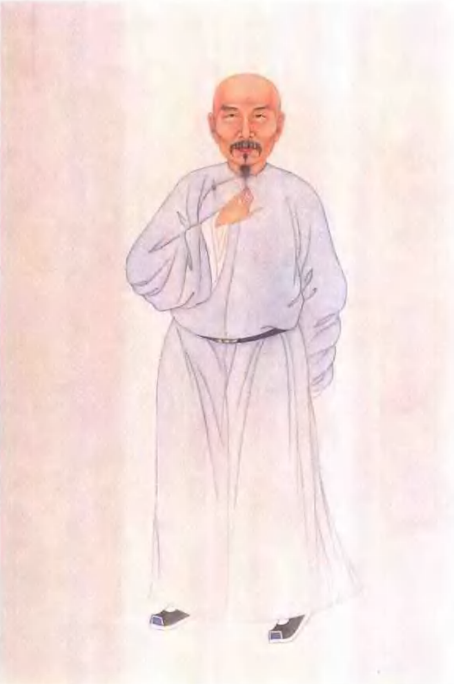 Wei Yuan (Chinese: 魏源; pinyin: Wèi Yuán; Wade–Giles: Wei Yüan, April 23, 1794—August 26, 1856), born Wei Yuanda (魏远达), courtesy names Moshen (默深) and Hanshi (汉士), was a Chinese scholar from Shaoyang, Hunan. He moved to Yangzhou in 1831, where he remained for the rest of his life. Wei obtained the provincial degree (juren) in the Imperial examinations and subsequently worked in the secretariat of several prominent statesmen, such as Lin Zexu. Wei was deeply concerned with the crisis facing China in the early 19th century; but, while he remained loyal to the Qing Dynasty, he also sketched a number of proposals for the improvement of the administration of the empire.